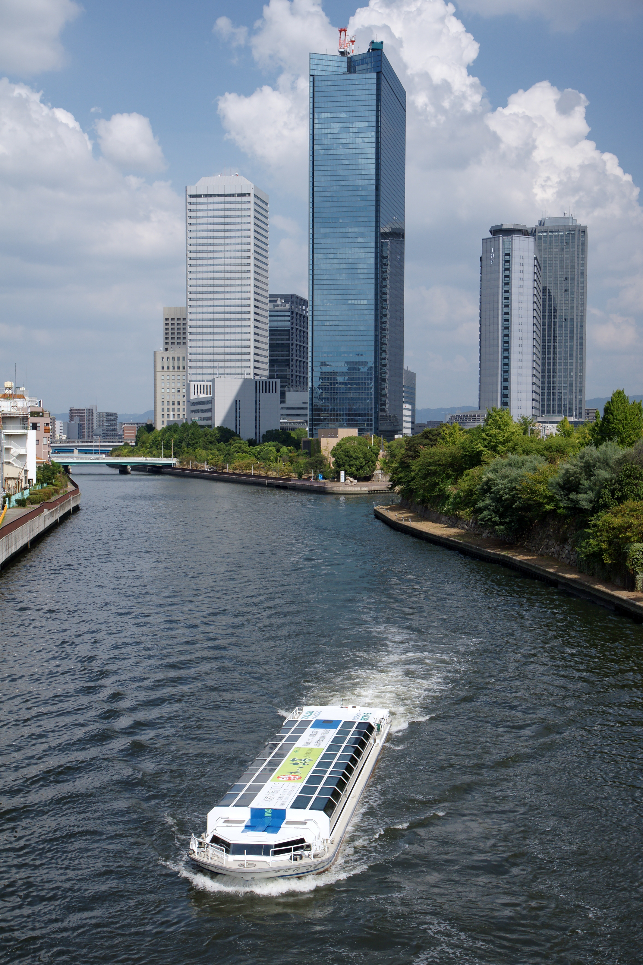 Osaka Business Park in Chuo-ku, Osaka, Osaka prefecture, Japan